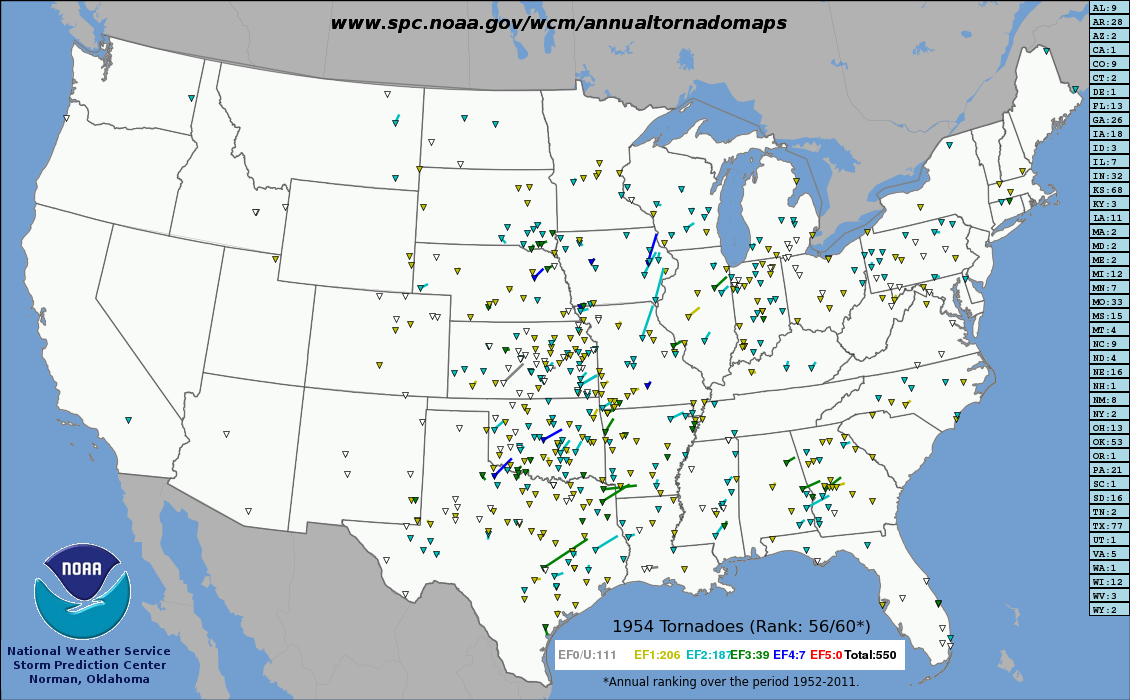 Track of every U.S. tornado from 1954.